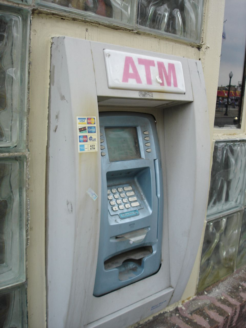 Nice ATM. Chicago.